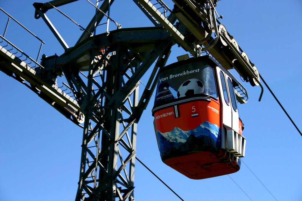 Gondelbahn Grindelwald-Männlichen